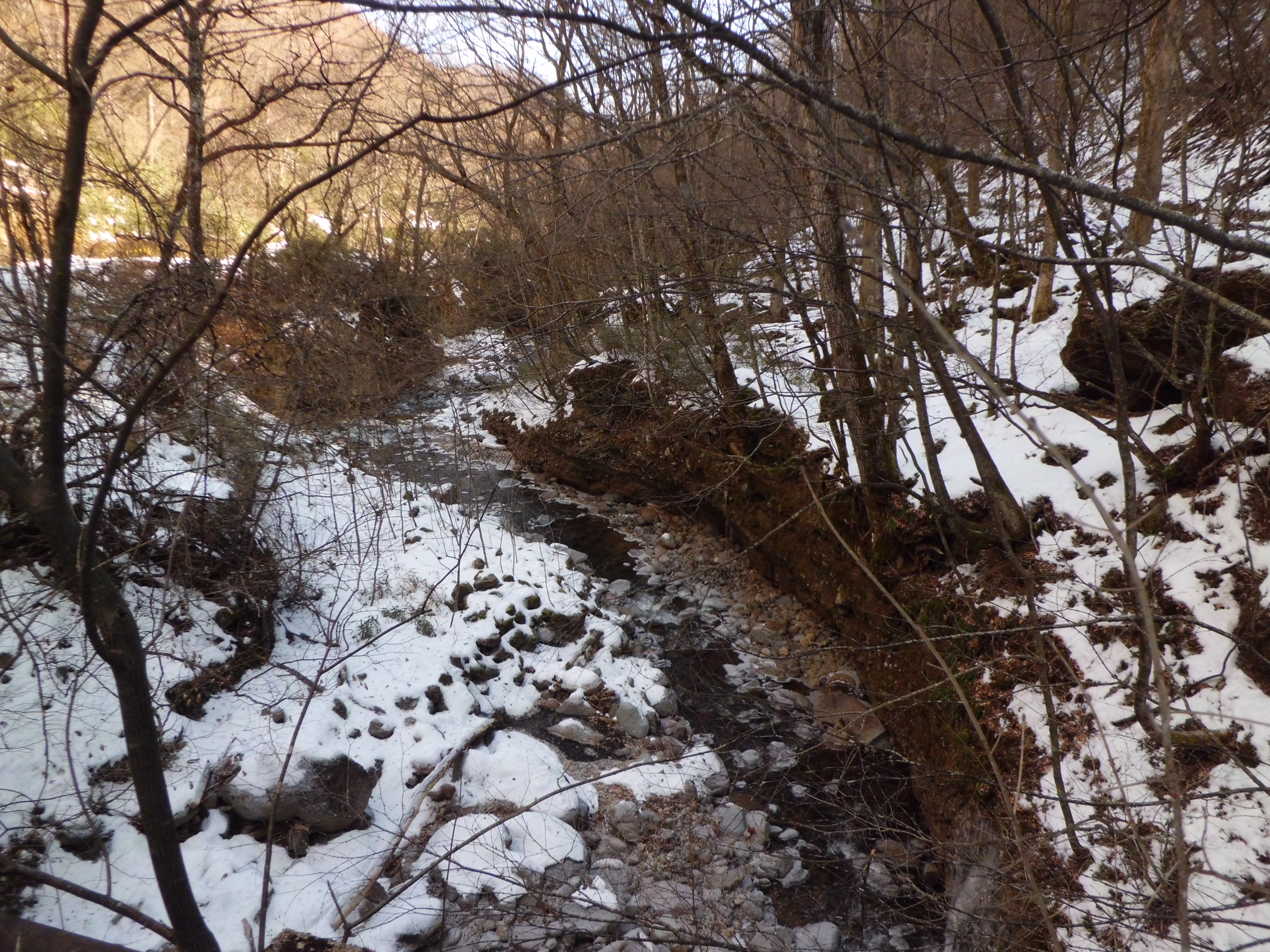 Yugawa River of Minamimaki village, Minamisaku-gun, Nagano prefecture, Japan. Looking at the middle of the river in Yugawa Valley.